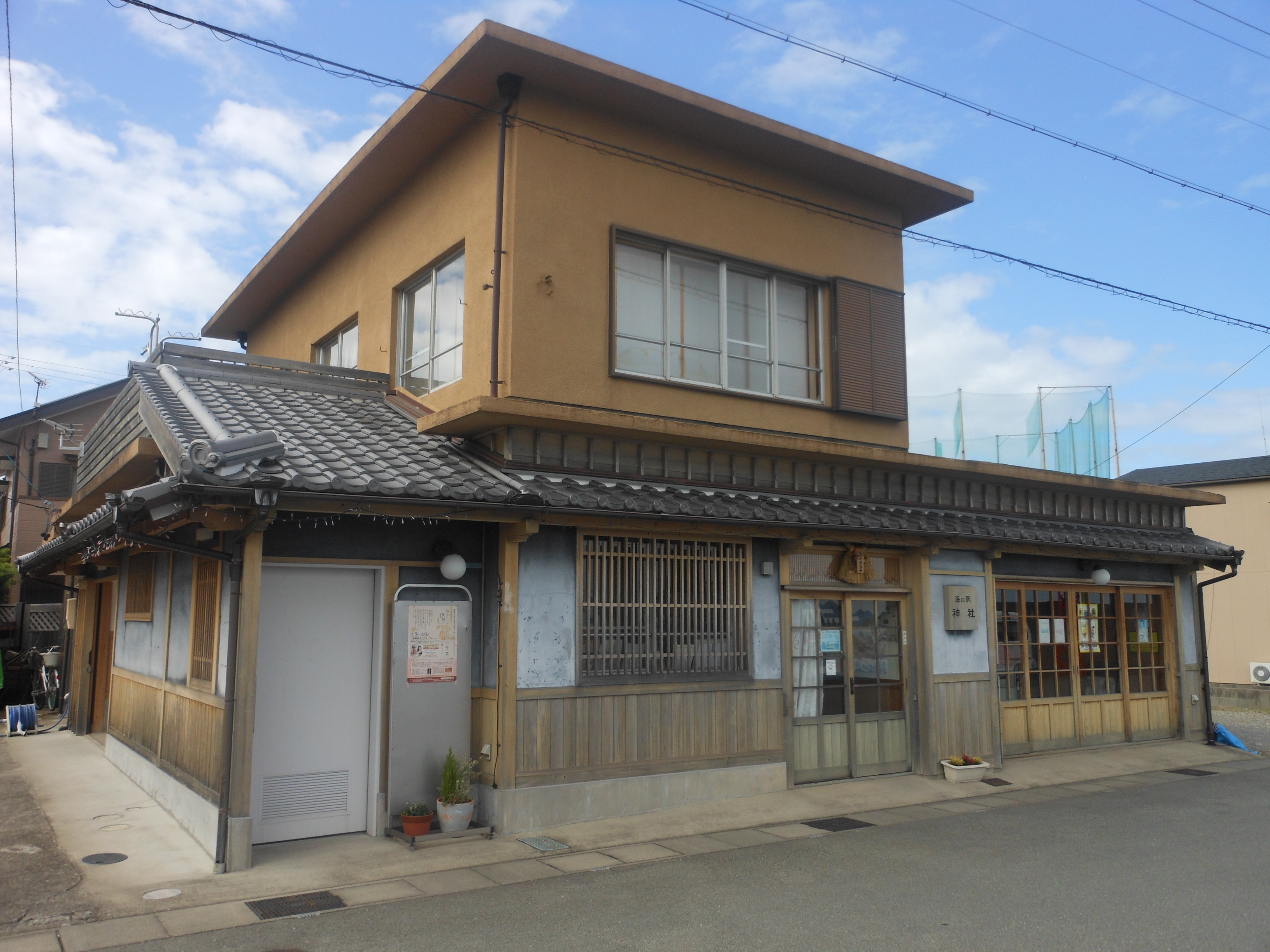 This is the Umi no eki Kamiyashiro or sea station Kamiyashiro in Kamiyashiroko, Ise, Mie, Japan.